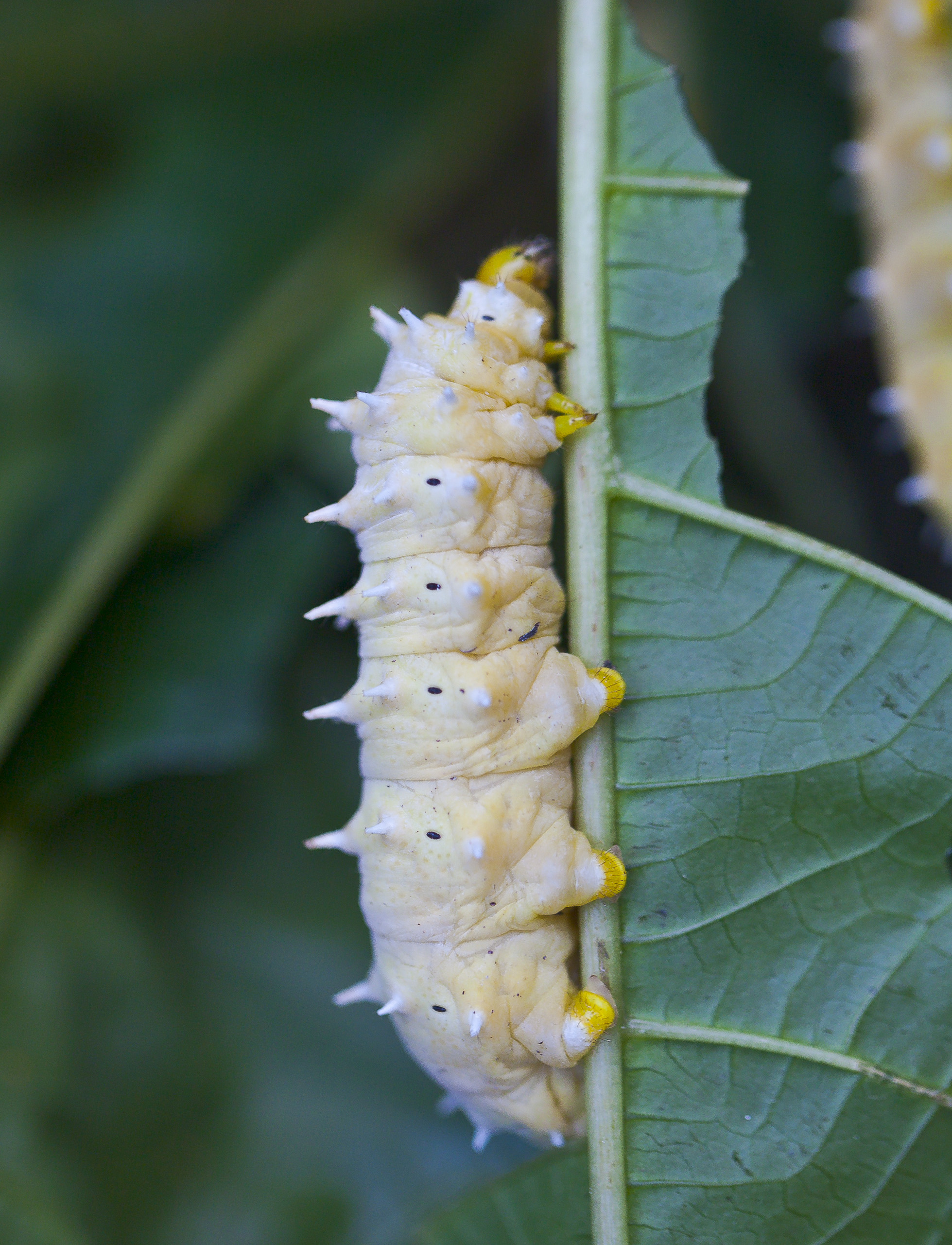 Caterpillar of Ailanthus silkmoth (Samia cynthia), Butterfly zoo of Icod de los Vinos, Tenerife, Spain